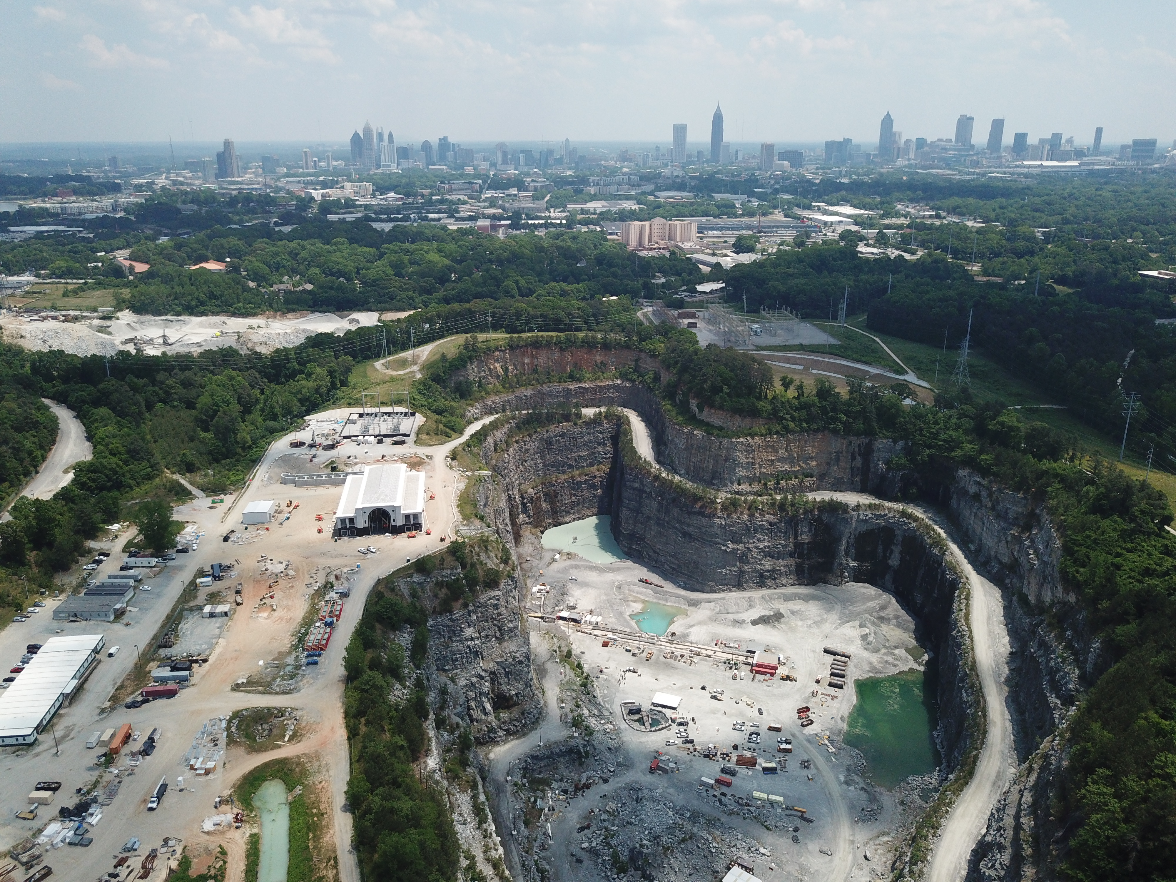 Aerial view of the construction of Atlanta's Westside Park reservoir component. The City of Atlanta Department of Watershed Management's construction of a new, larger reservoir for the City of Atlanta. Tunnels were dug from this decommissioned quarry to the nearby Chattahoochee River and the water treatment facility on Howell Mill Rd. Once the tunnels and new pumping station is complete, the quarry will be filled with water from the Chattahoochee River.